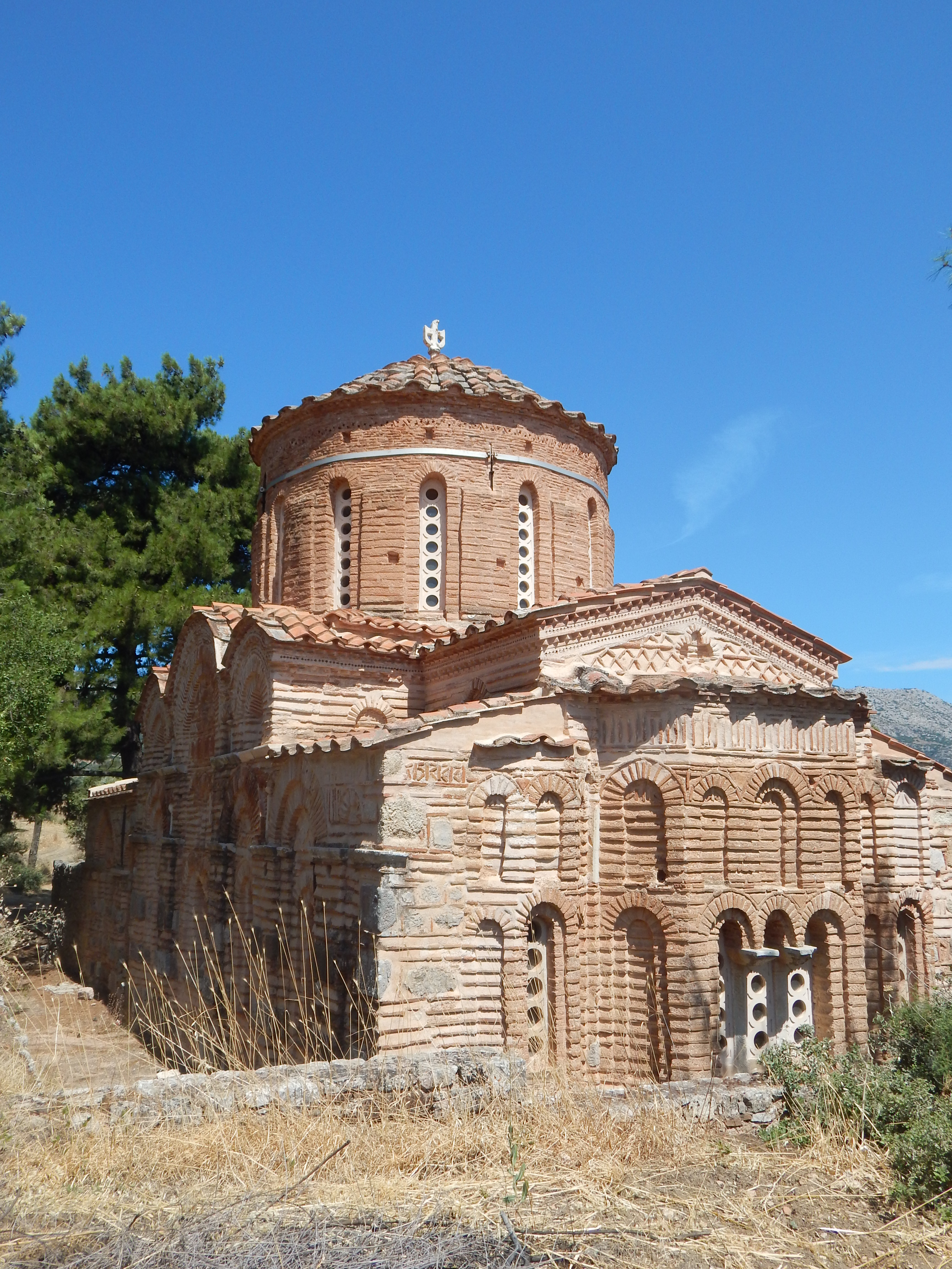 Panagia Krina, near Vaviloi, Chios, Greece«Ναός Παναγίας Κρήνας, Βάβυλοι»